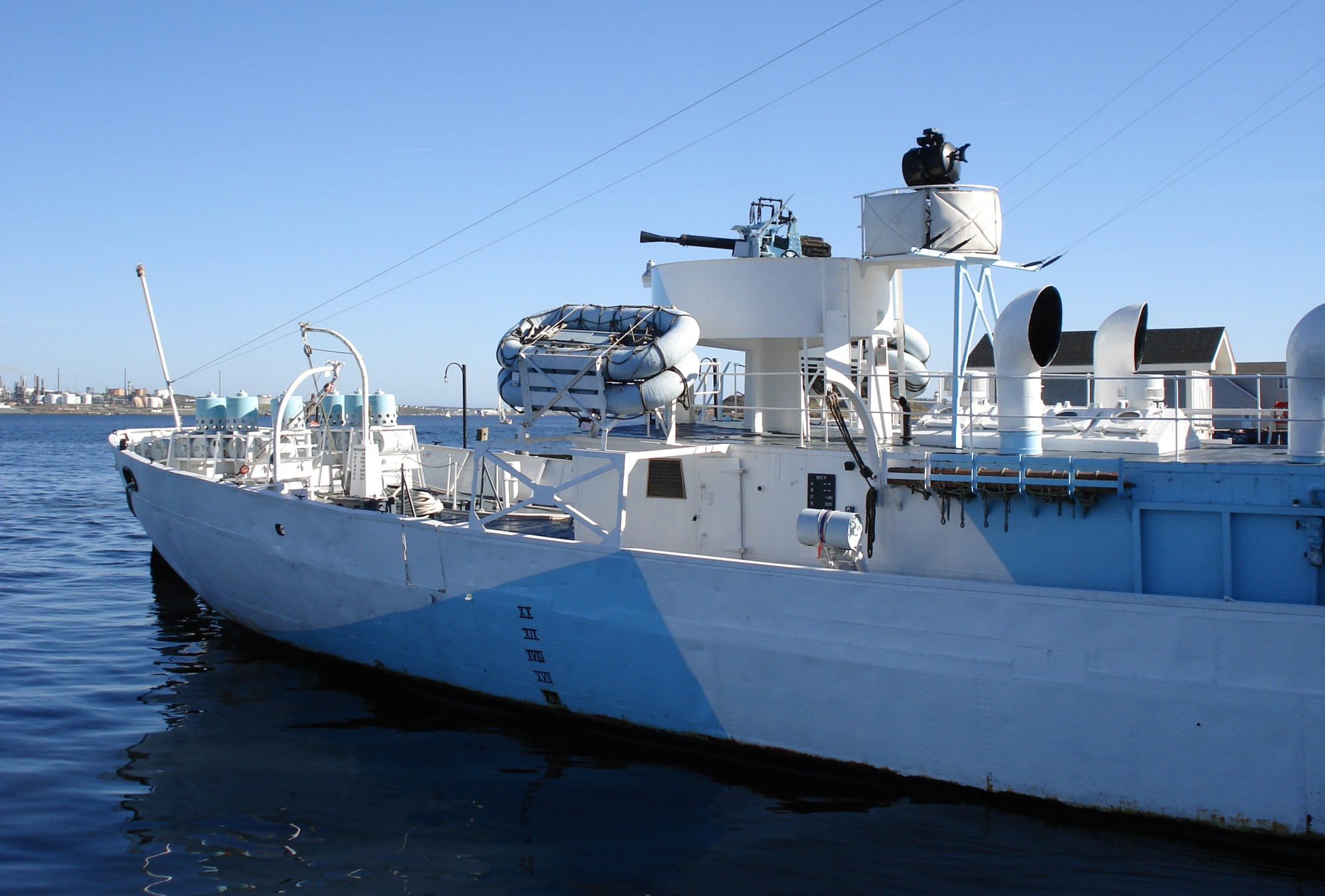 HMCS Sackville, Halifax Harbour Picture taken October 9, 2006 by Bryson109 (myself). Picture showing Oerlikon 20mm Anti-aircraft gun and depth charge releasing device at stern of ship.